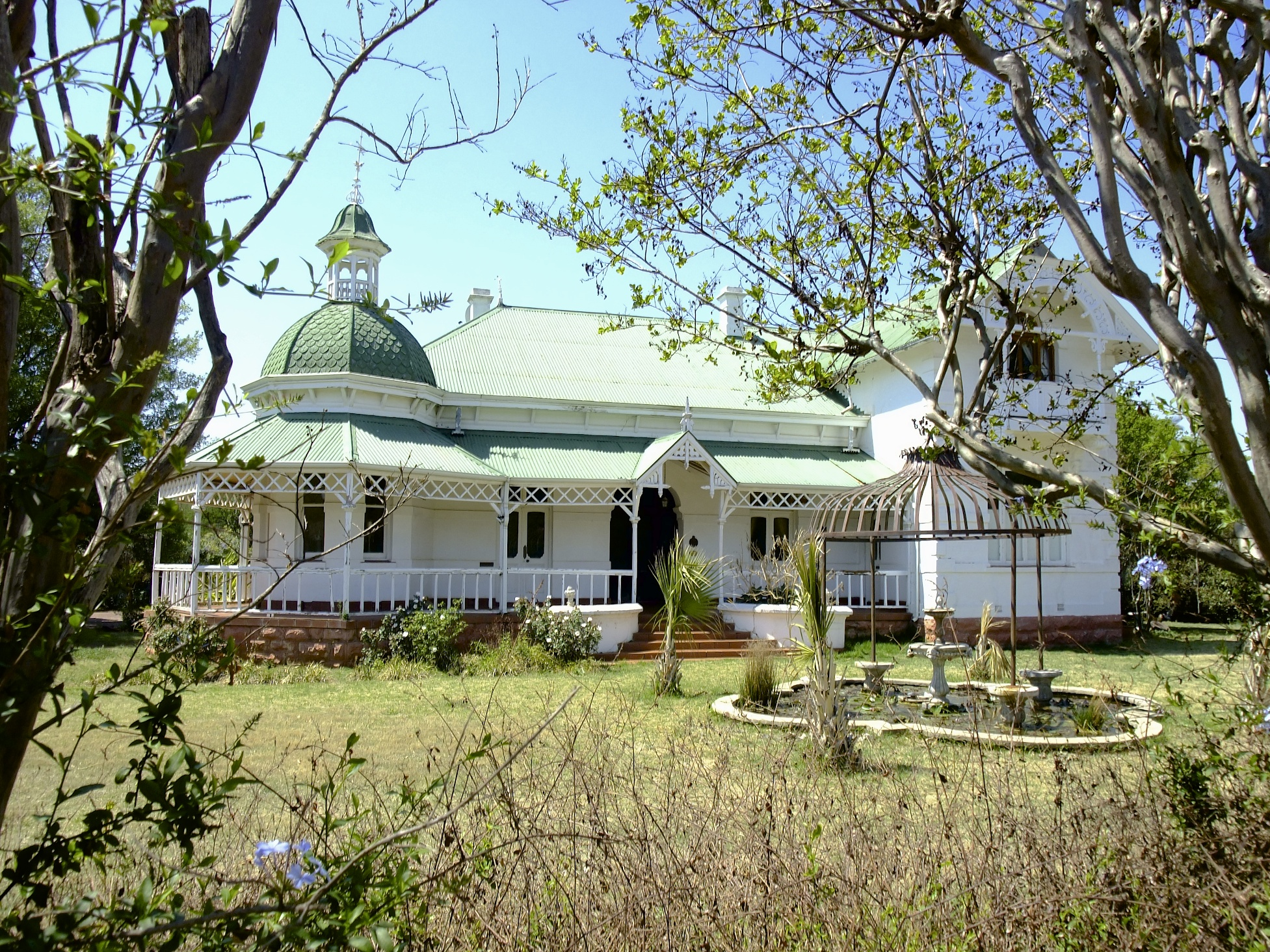 Fountain Villa, Hendrik Potgieter Street, Klerksdorp This media shows a South African Protected Site with SAHRA file reference 9/2/231/0002.